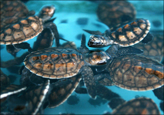 tortuga de carey hawksbill turtle